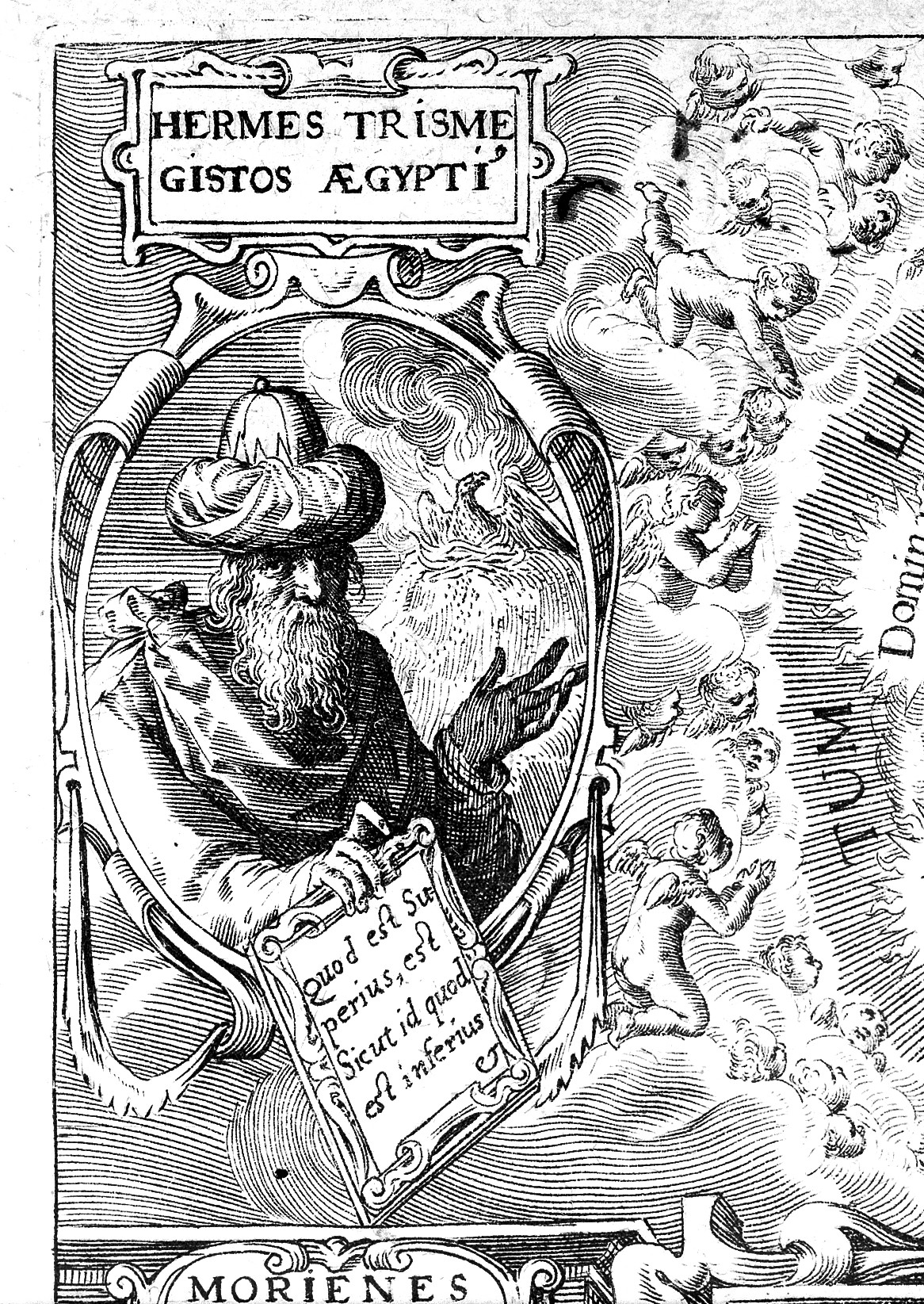 Hermes Trismegistus illustration Rare Books Keywords: Oswald Croll